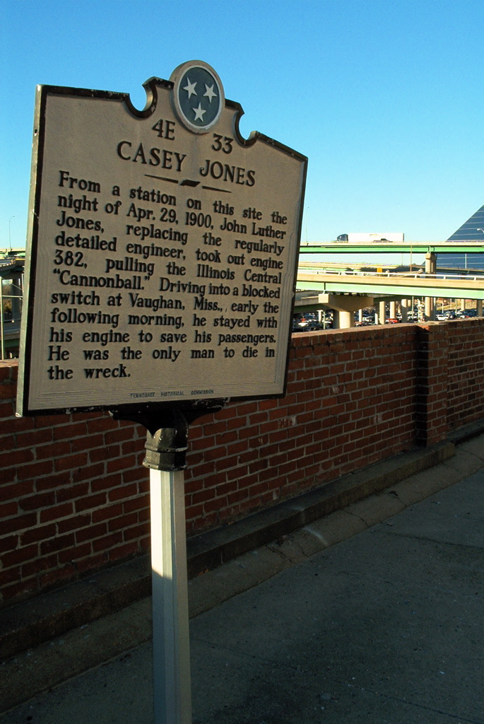 Historical marker commemorating the starting point of Casey Jones fatal journey in Memphis, Tennessee.